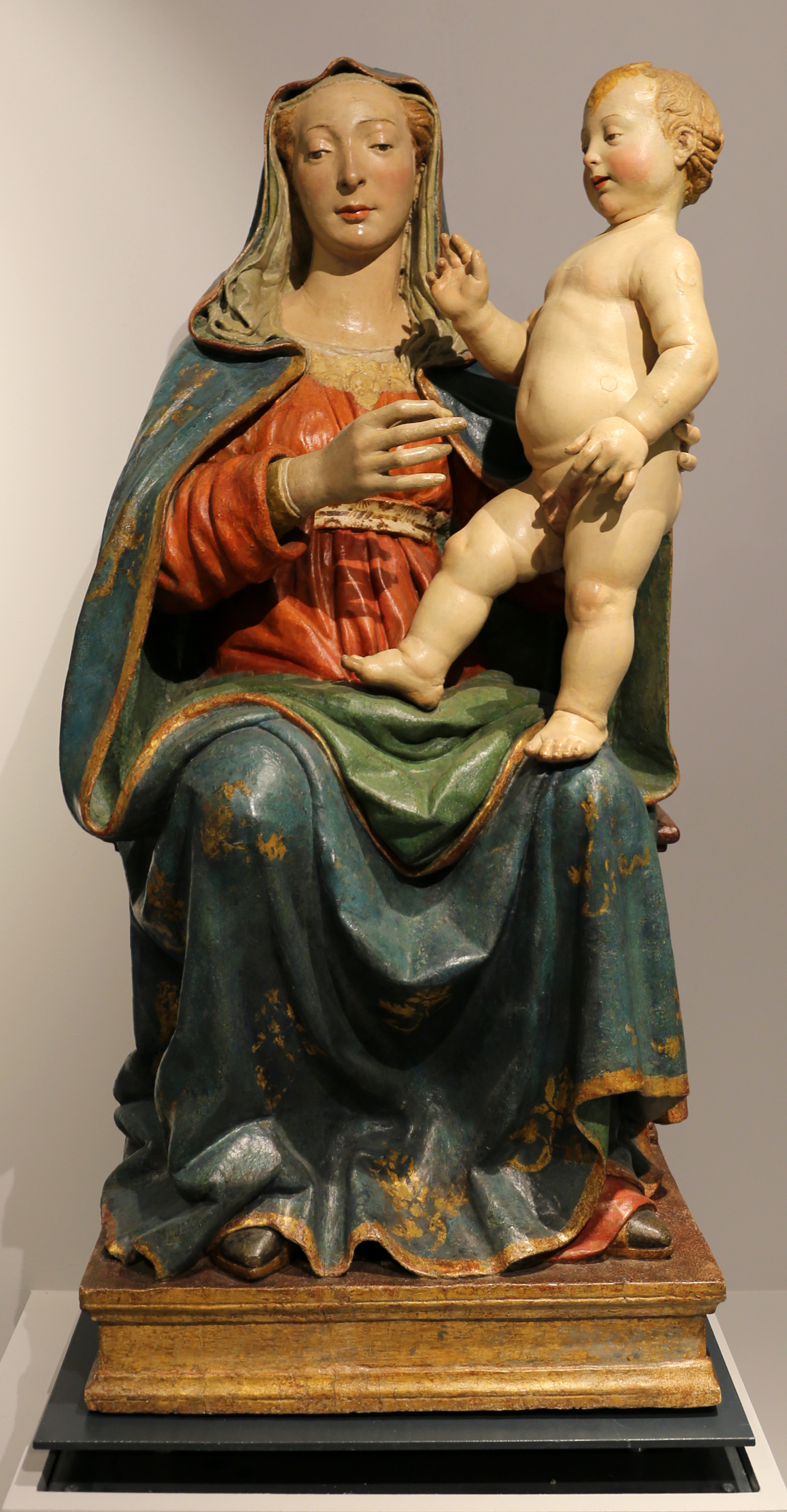 Sculptures in the Museo nazionale d'Abruzzo